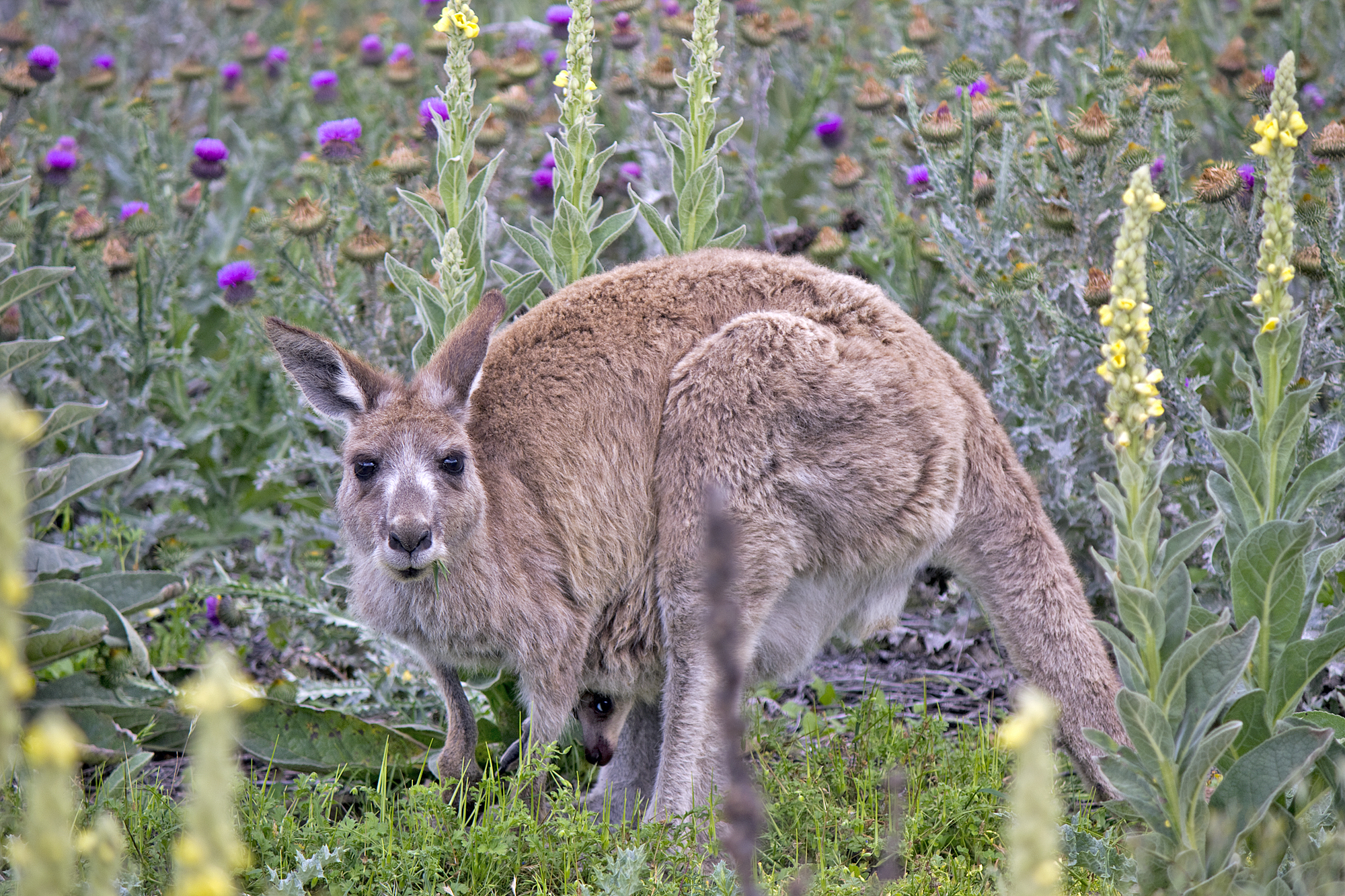 Macropus giganteus and joey on Tuggeranong Hill.